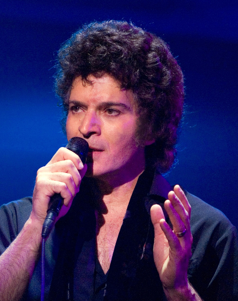 Gino Vannelli, Italian-Canadian singer, songwriter, musician and composer.